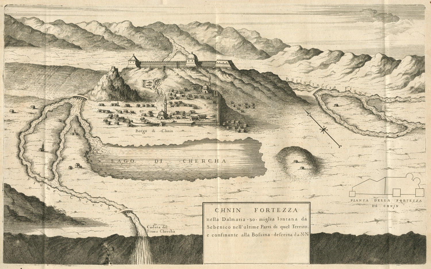 Vincenzo Coronelli - Repubblica di Venezia p. IV. Citta, Fortezze, ed altri Luoghi principali dell' Albania, Epiro e Livadia, e particolarmente i posseduti da Veneti descritti e delineati dal p. Coronelli, Venice, 1688.